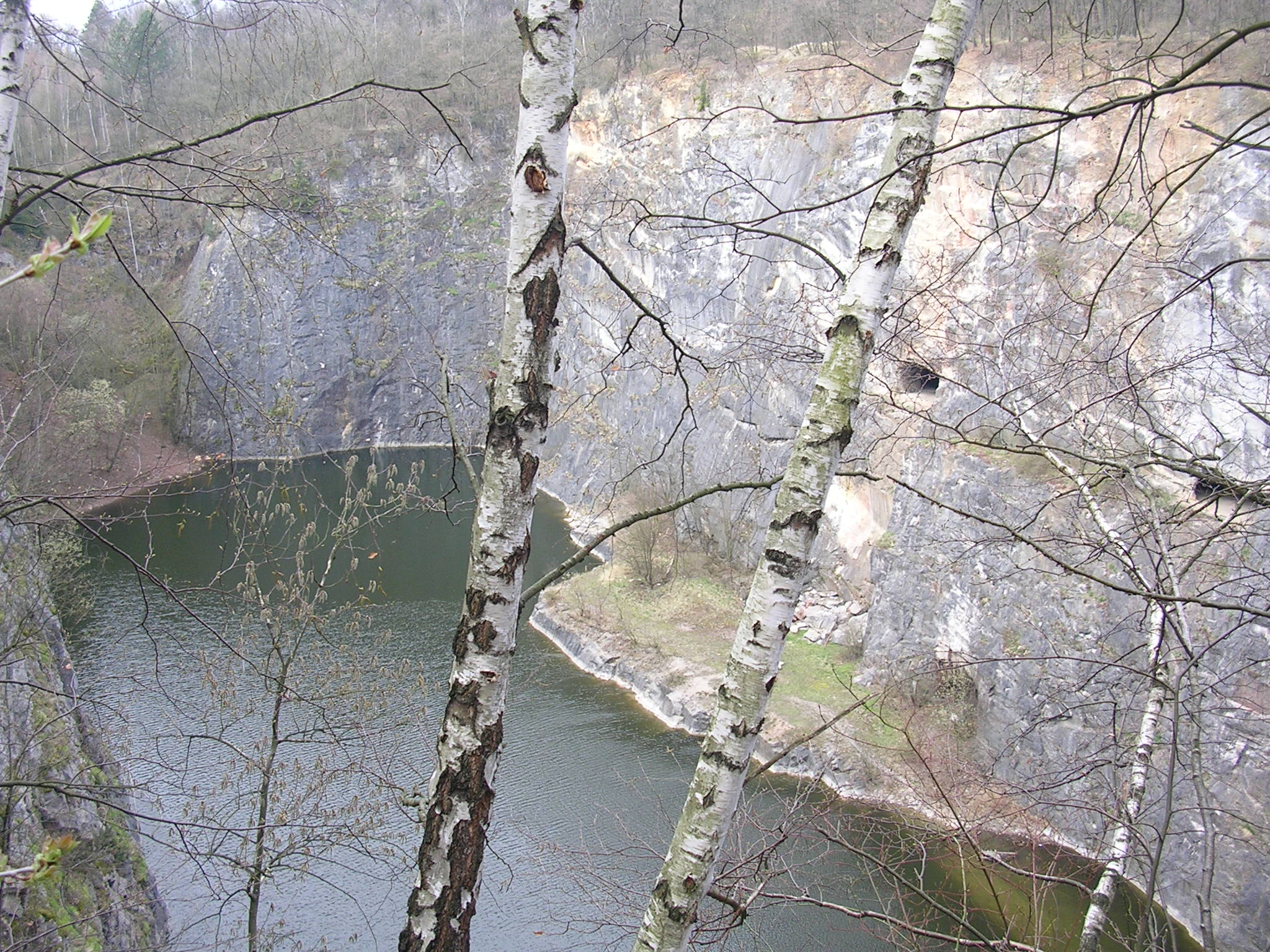 quarry Malá Amerika (Little America) near Mořina, the Czech Republic.